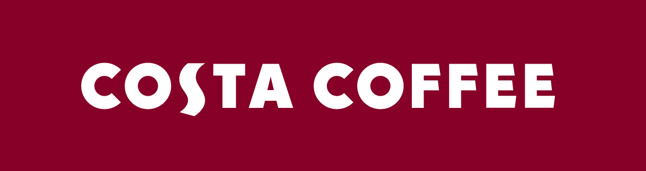 Logo kawiarni COSTA COFFEE